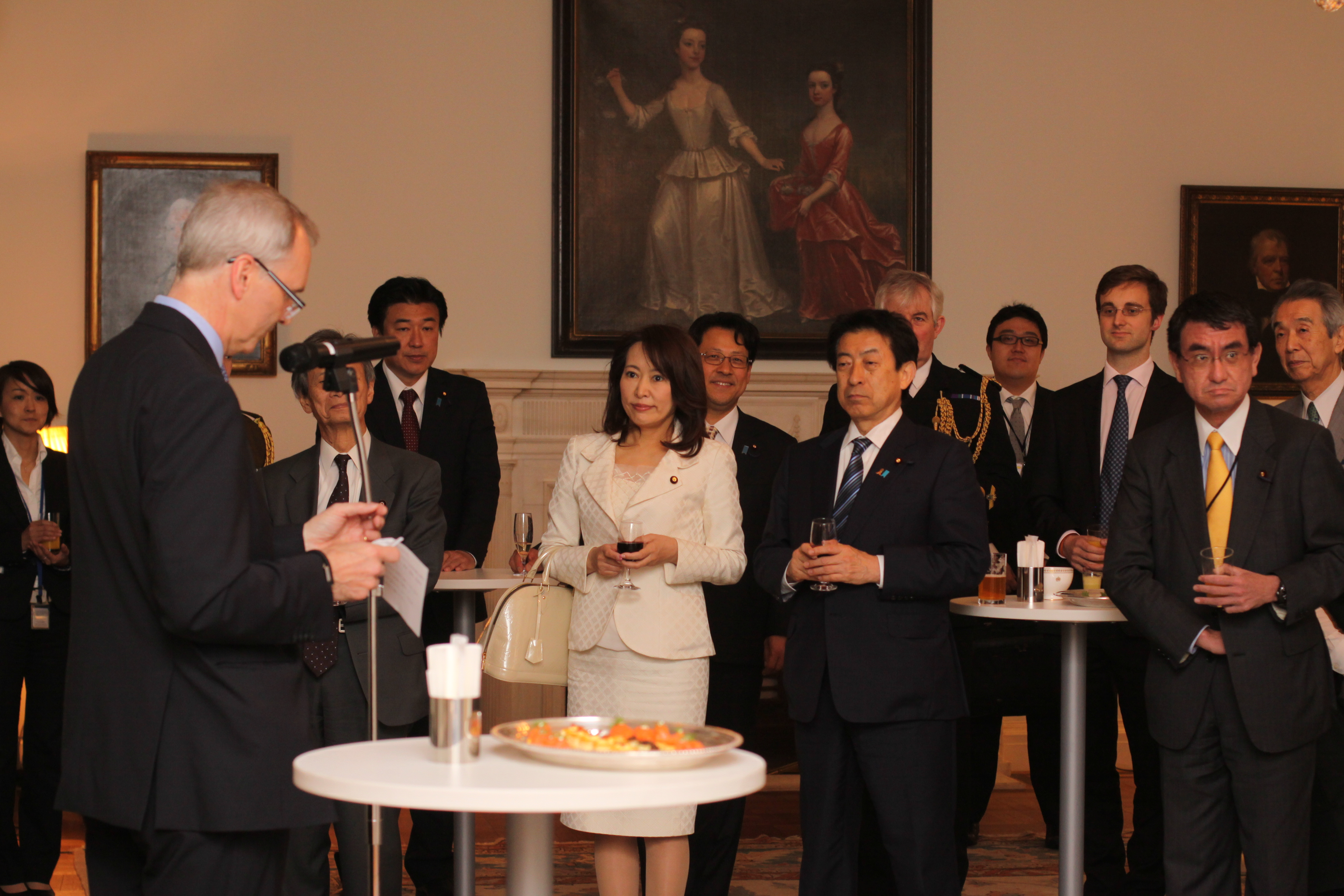 Tim Hitchens, Ambassador to Japan, made a speech to welcome to Yasuhisa Shiozaki, Minister of Health, Labour and Welfare, Satsuki Eda and Masako Miyoshi, Members of the House of Councillors, and Tarō Kōno, Member of the House of Representatives, at the Embassy of the United Kingdom in Tokyo on April 1, 2015.